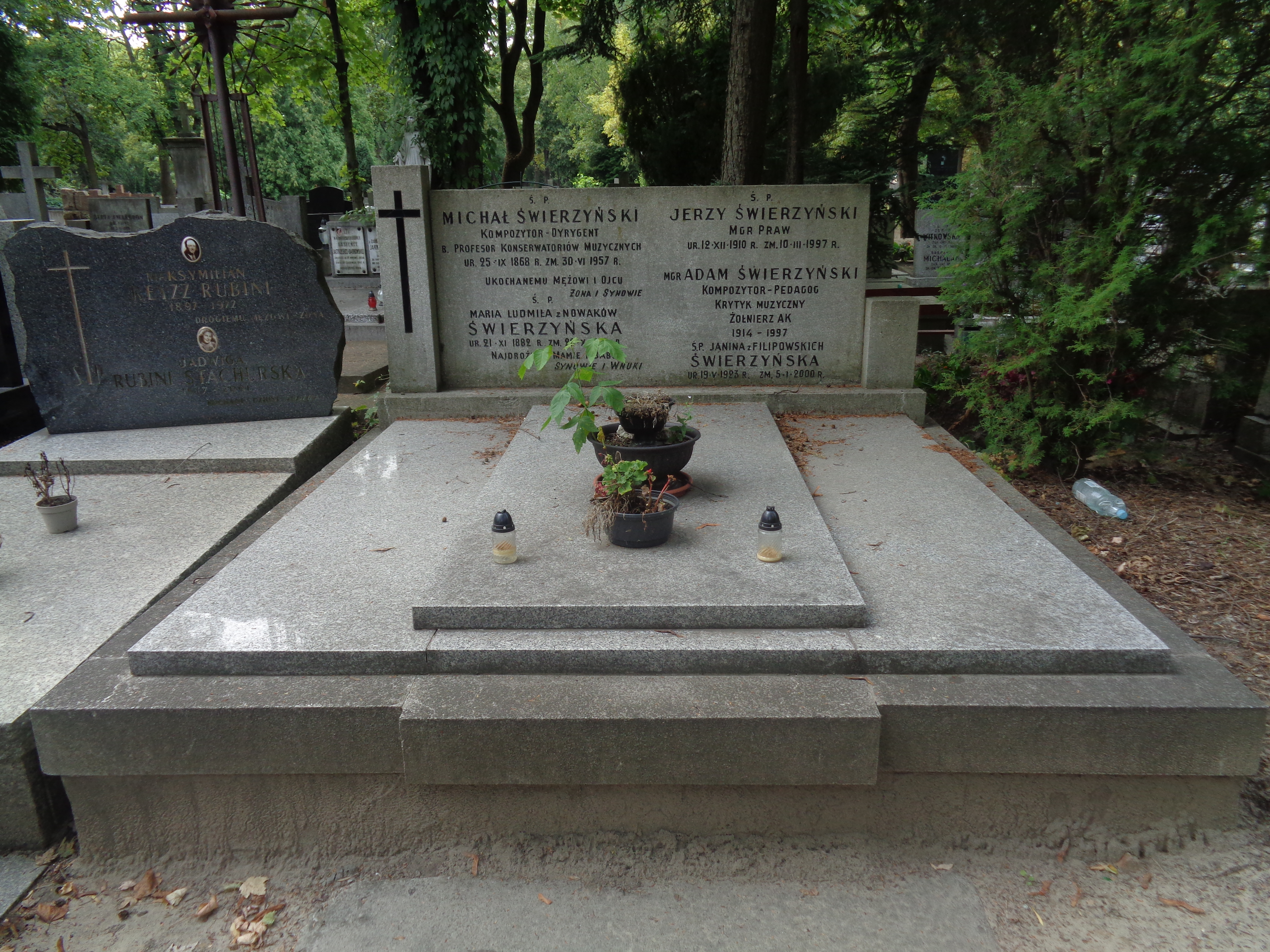 Tomb in powązki cemetery